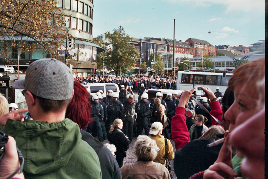 Smash Asem demonstration